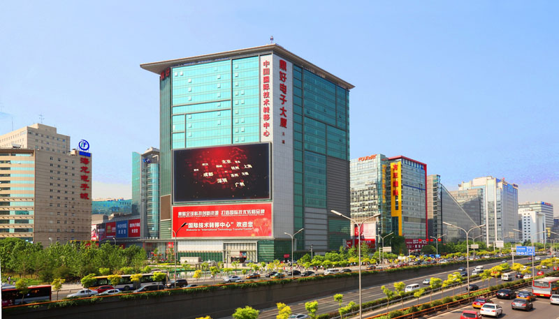 CITTC Beijing Headquaters